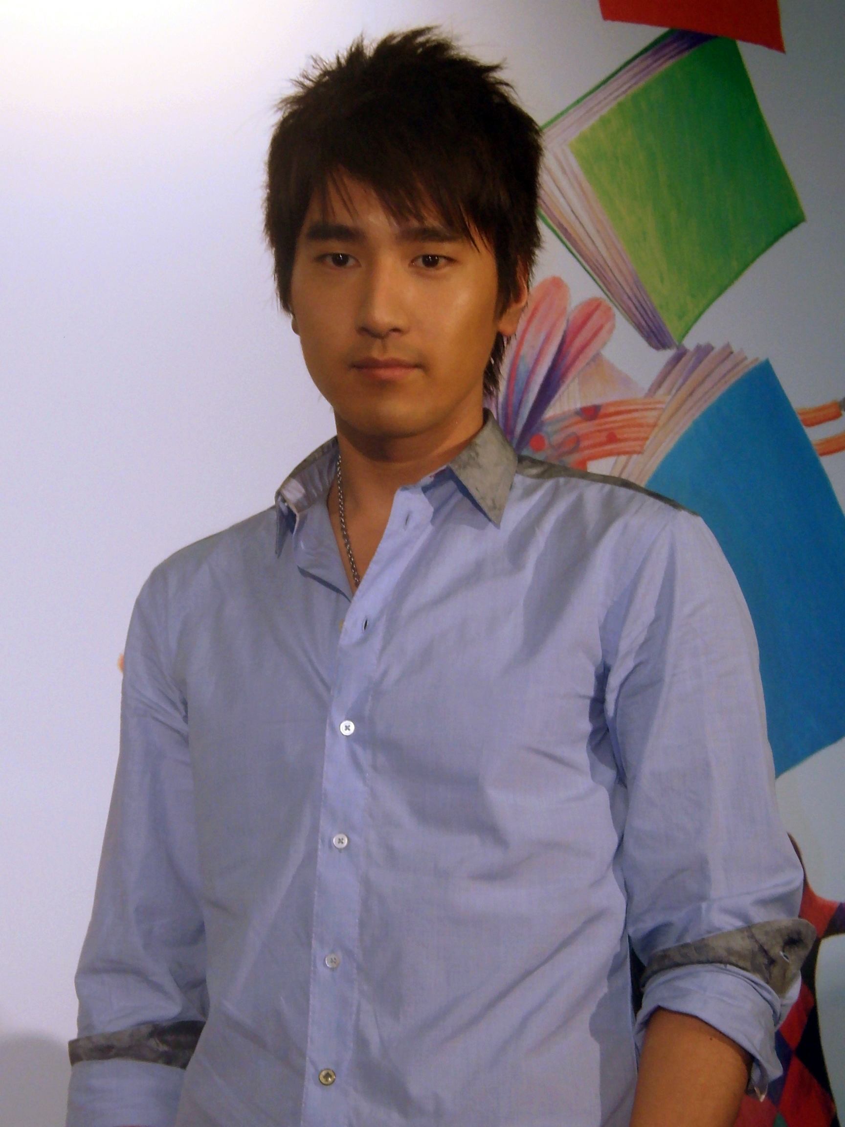 2010 Taipei International Book Exhibition: Mark Chao in "Monga" Photobook Event.